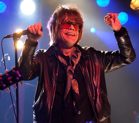 David Johansen with the New York Dolls live at SO36. Complete gallery